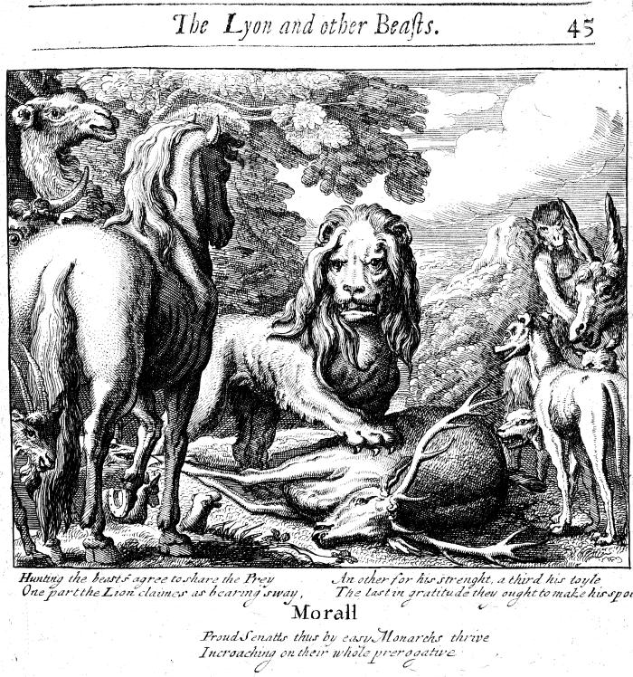 The illustration to "The lion and other beasts" from Francis Barlow's edition of Aesop's Fables (London, 1687)